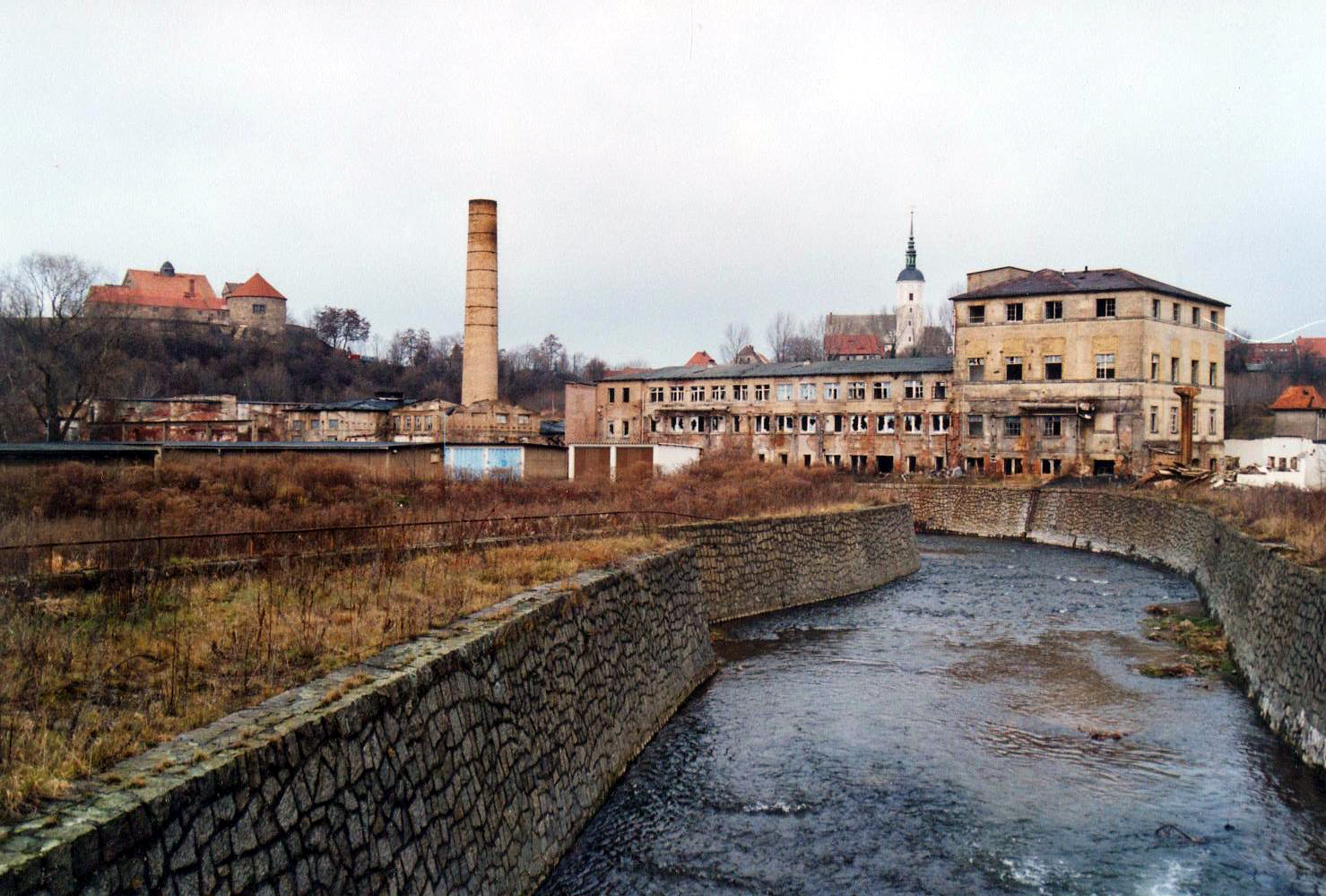 This image shows the Müglitz-river in Dohna in Saxony, Germany.